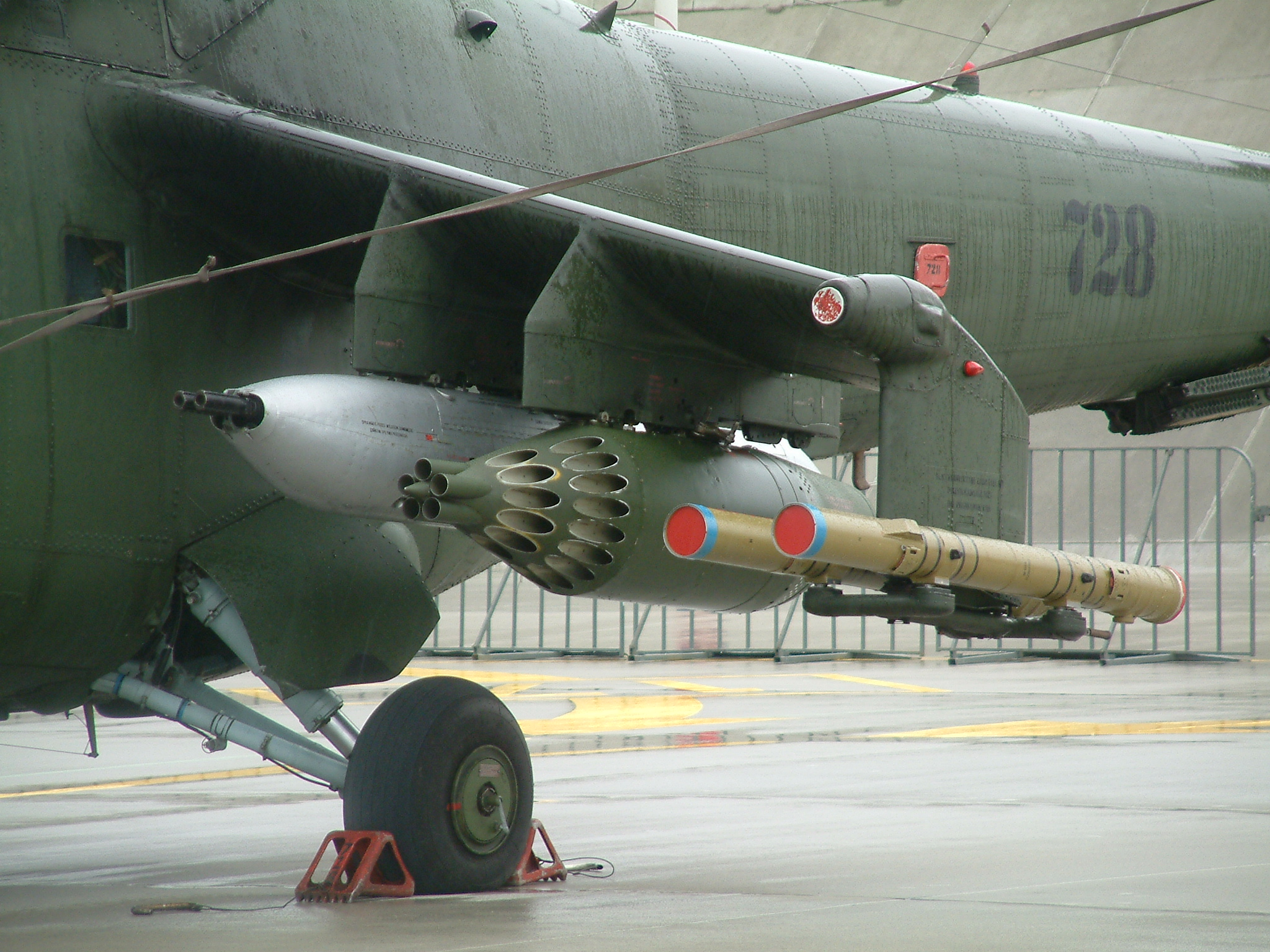 Mi-24W #728 of Polish Land Forces Aviation, 31st. Air Base Poznań-Krzesiny